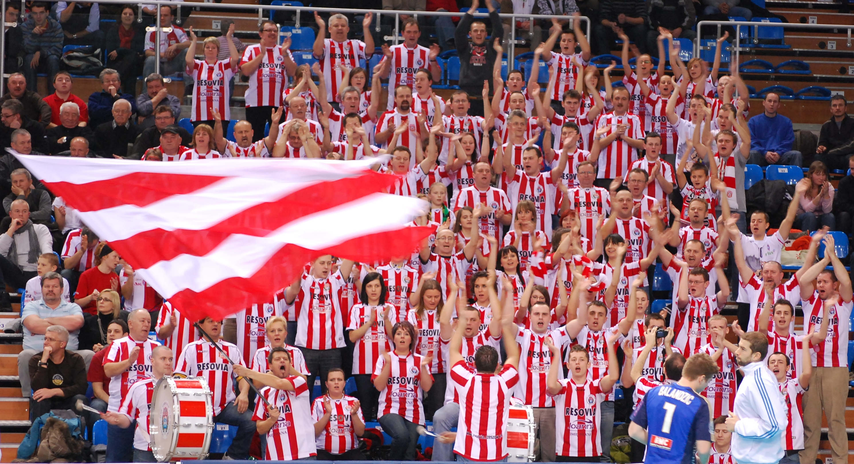 Fans of Asseco Resovia Rzeszów.